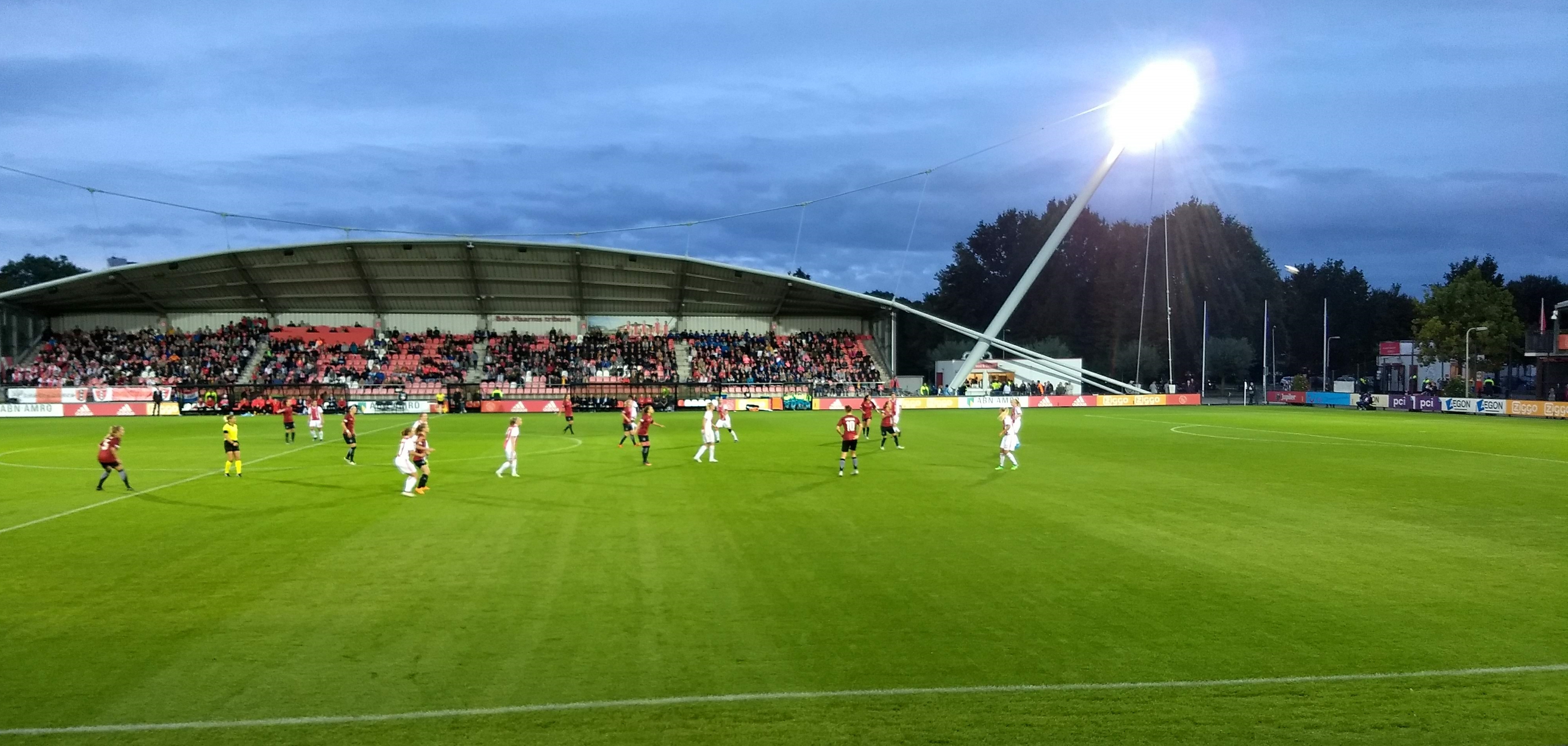 Ajax - Sparta Praag - 2018 UEFA Champions League @ De Toekomst (2-0)